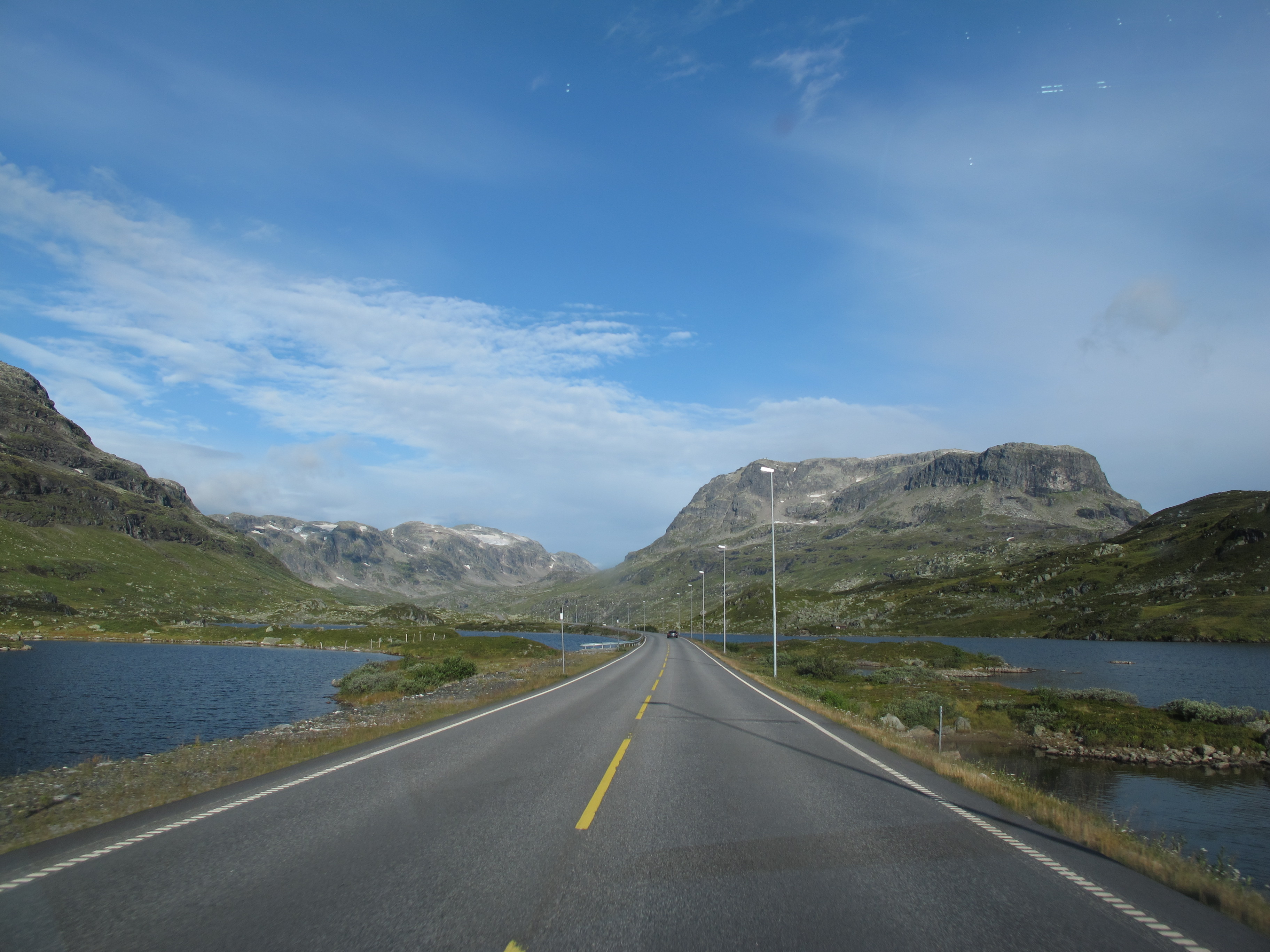 On the way westward on E134 accross the Haukelifjell mountain plateau. Late summer 2011. This road opened i 1968.